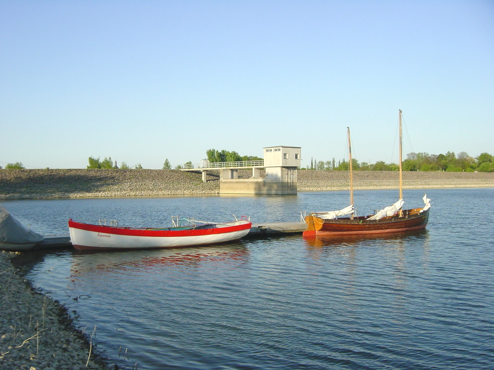 Großbrembach dam in Thuringia, Germany